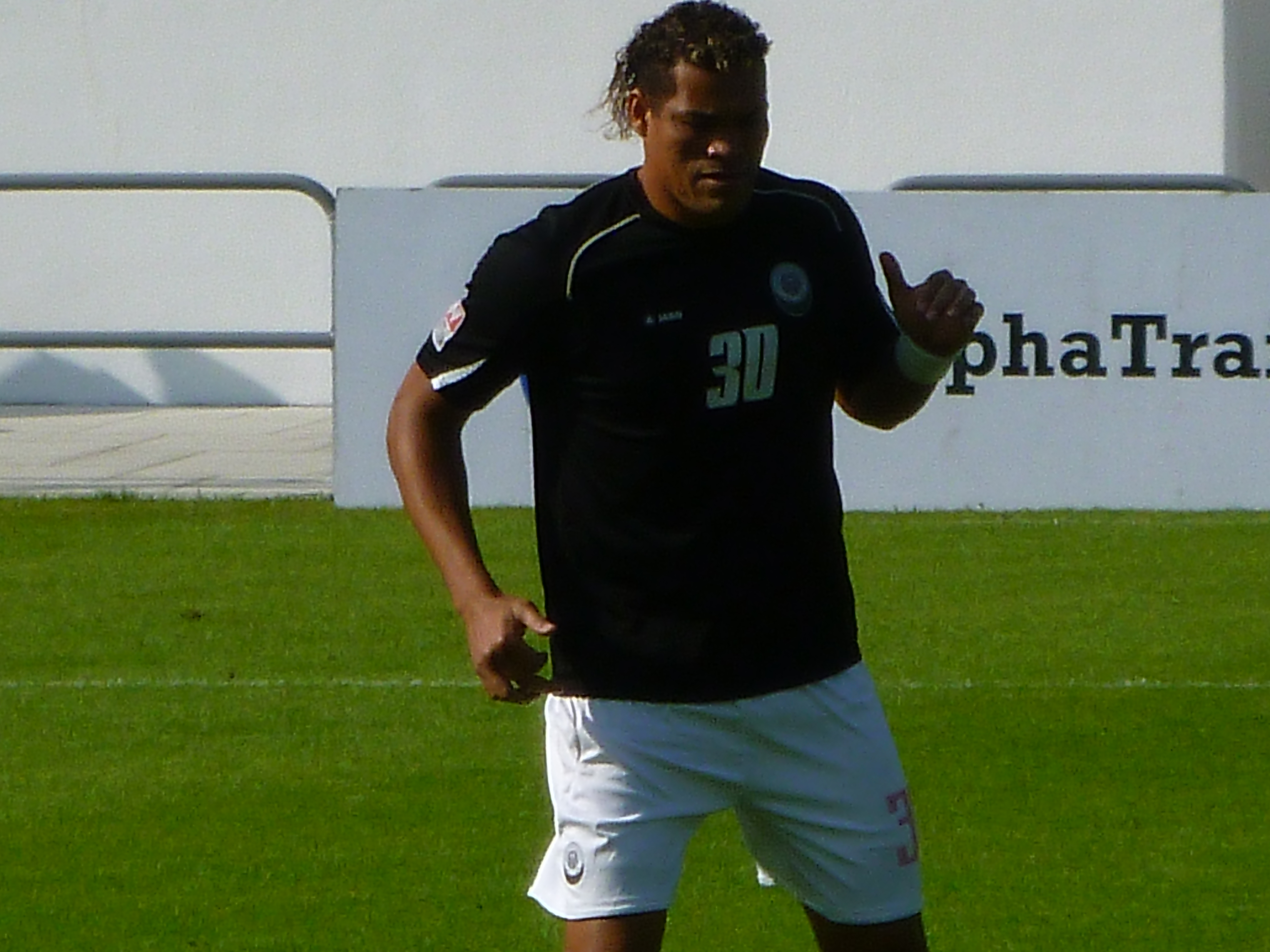 José Wellington Bento dos Santos (Detinho) - (28 Jan 2012 Hong Kong First Division League, Citizen vs Sham Shui Po, Mong Kok Stadium)